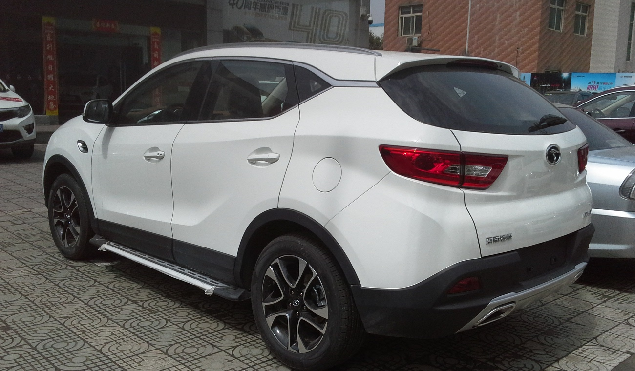 Soueast DX7 Bolang photographed in Xi'an, Shaanxi province, China.